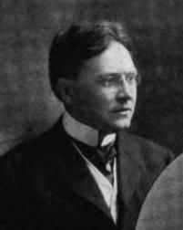 Portrait of New York state senator James J. Frawley